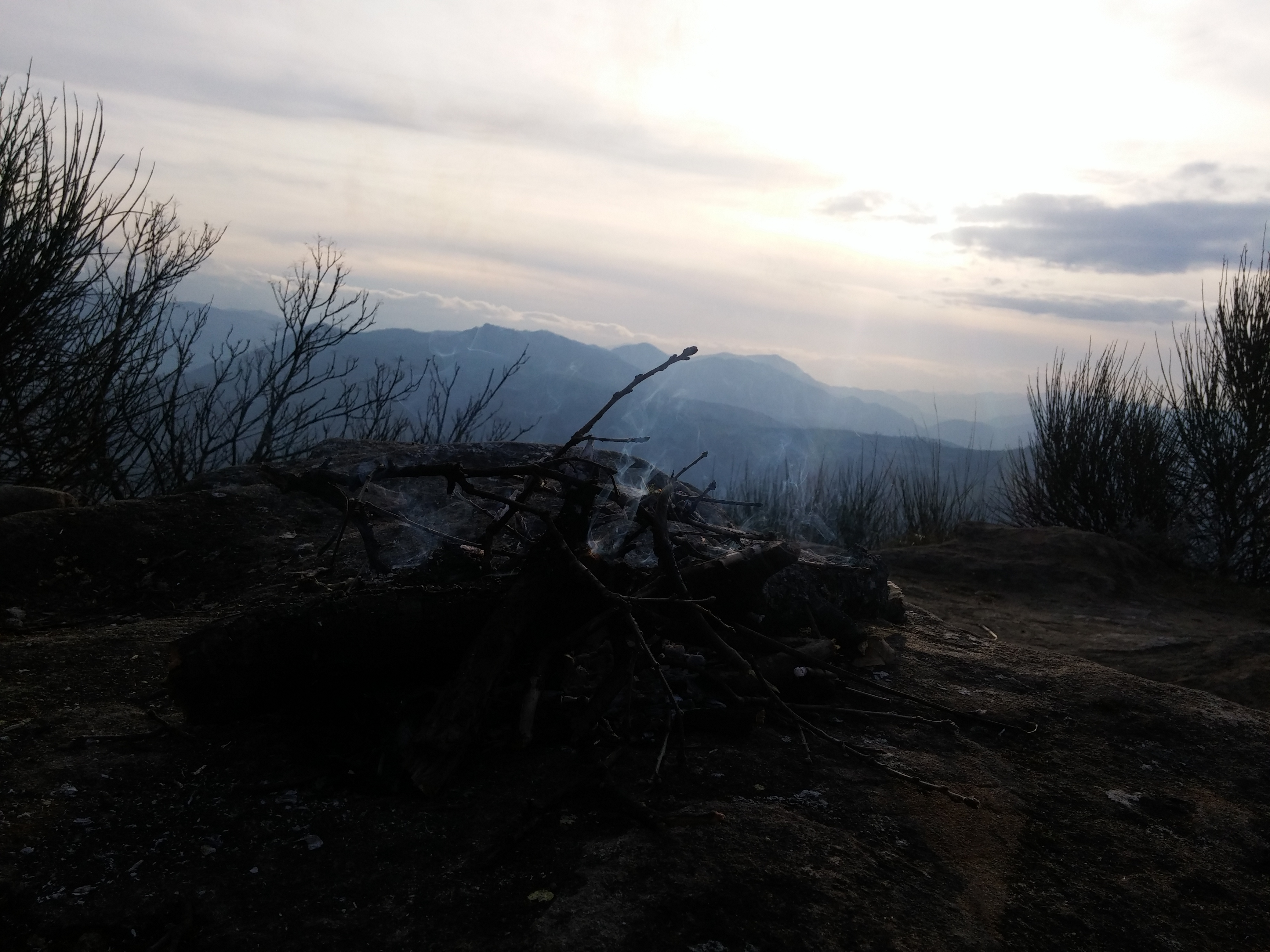 sunset on badolo